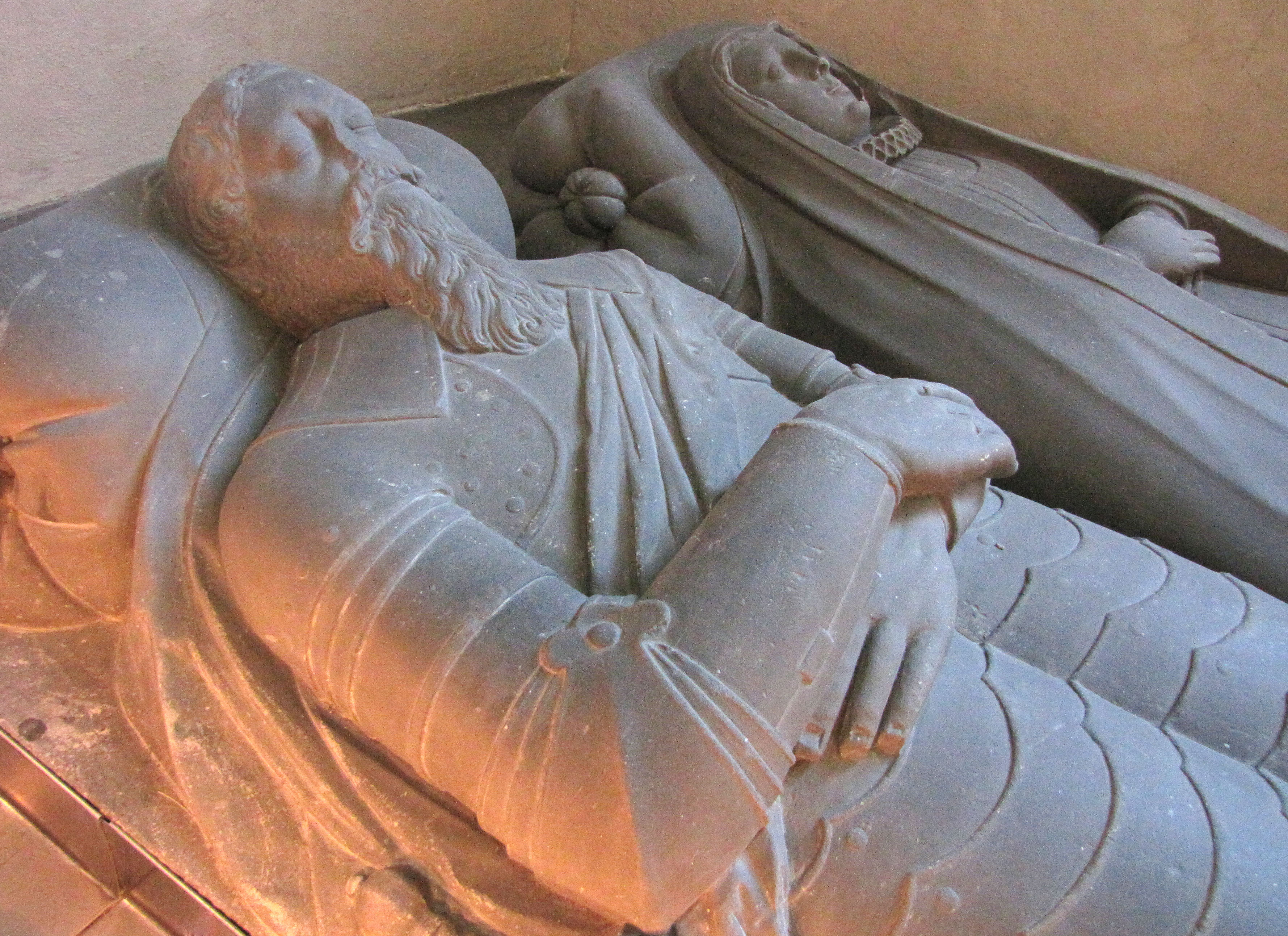 Lars Bengtsson Skytte's grave in Storkyrkan, Stockholm.